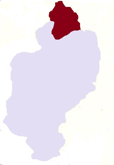 Nogmung Township roughly highlighted in Kachin State, Burma